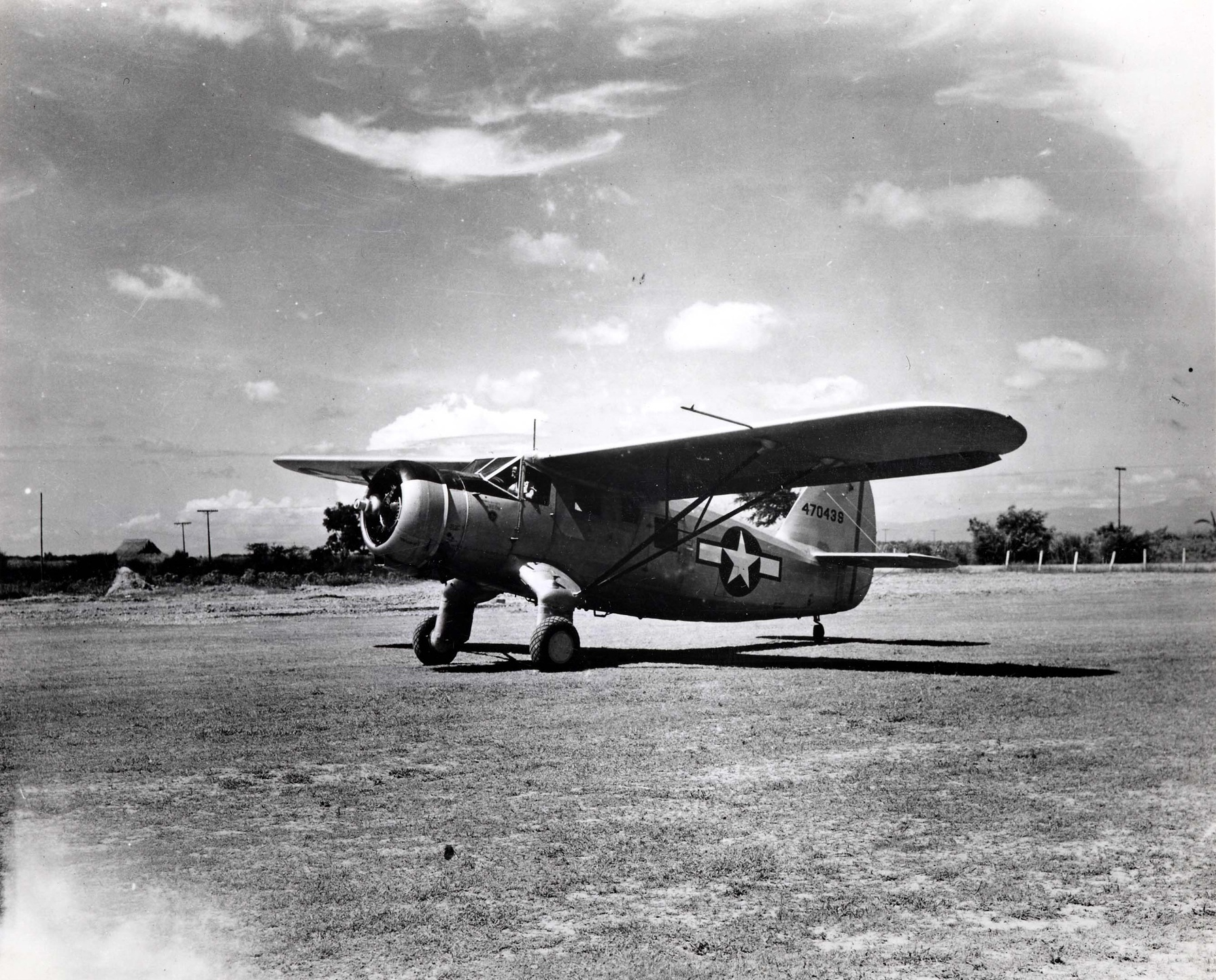 A U.S. Army Air Forces Noorduyn UC-64A Norseman (s/n 44-70439) from the 3rd Air Commando Group. The 3rd ARG operated mainly in the Philippines from May 1944 until it took part in the occupation of Japan in September 1945.